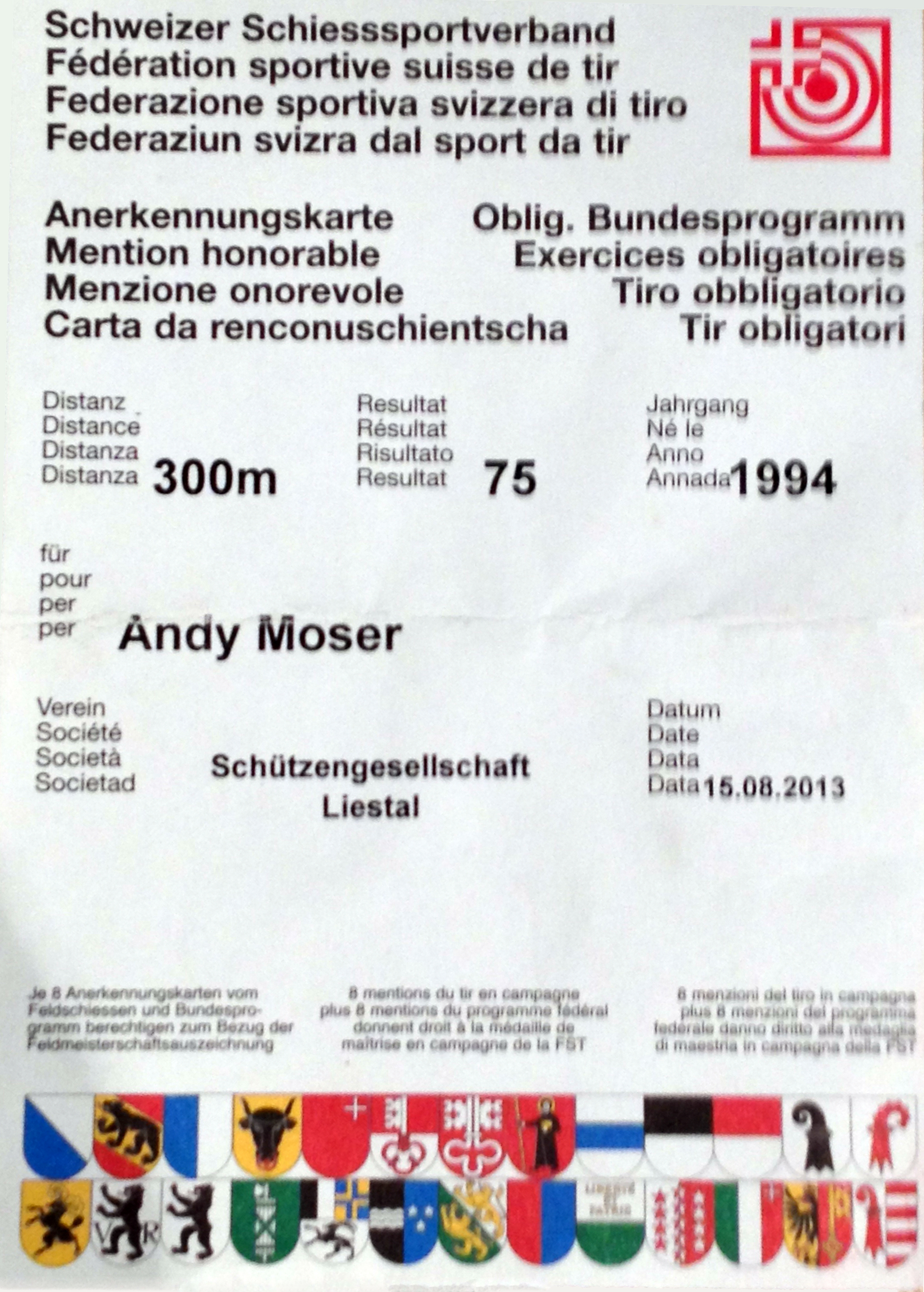 A recognition card of the Swiss Shooting Sport Association as proof of achievements in the Obligatory Federal Program 300m with the StGw 90.